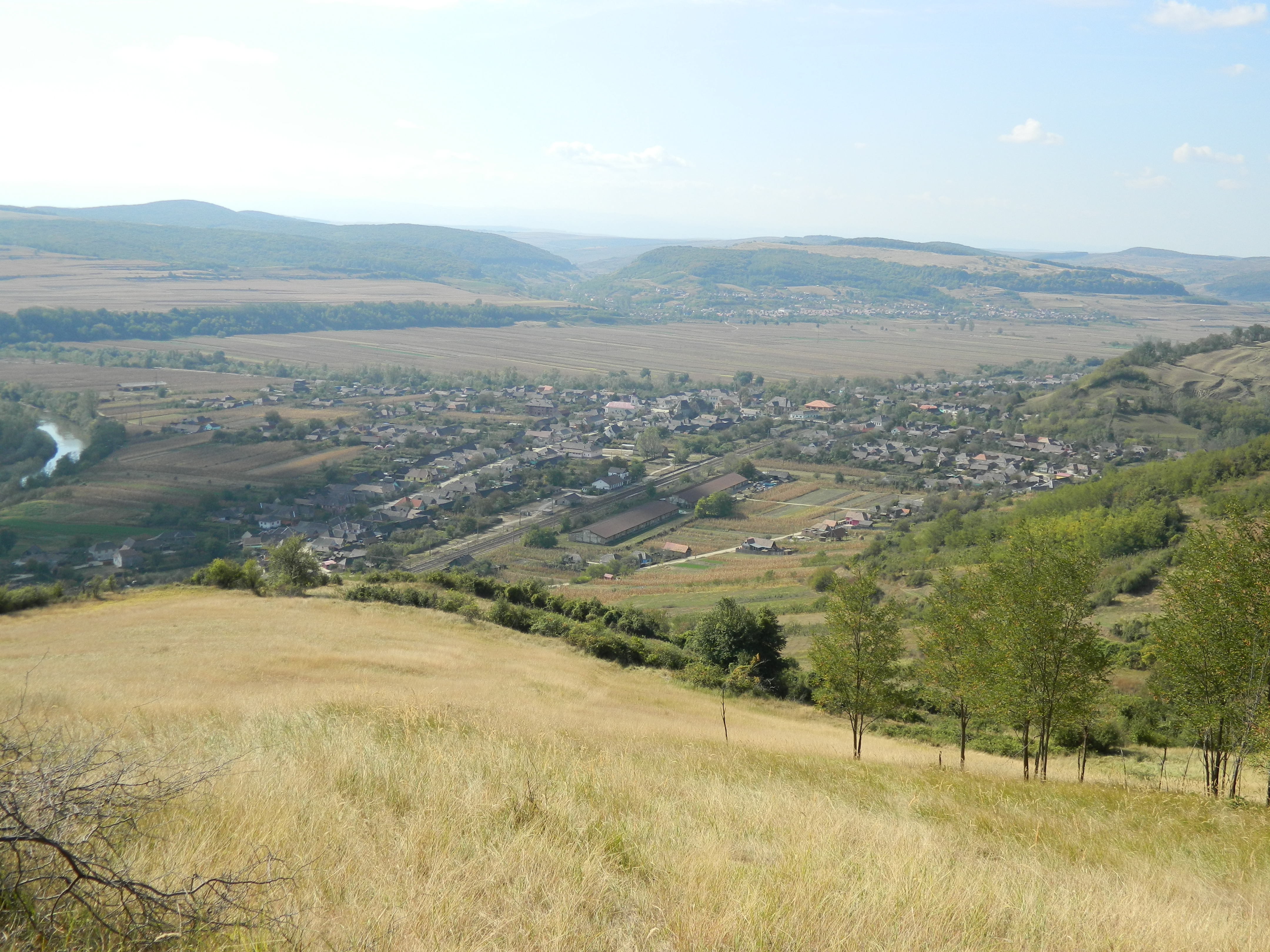 Micăsasa, with Ţapu in the distance, Sibiu County, Romania